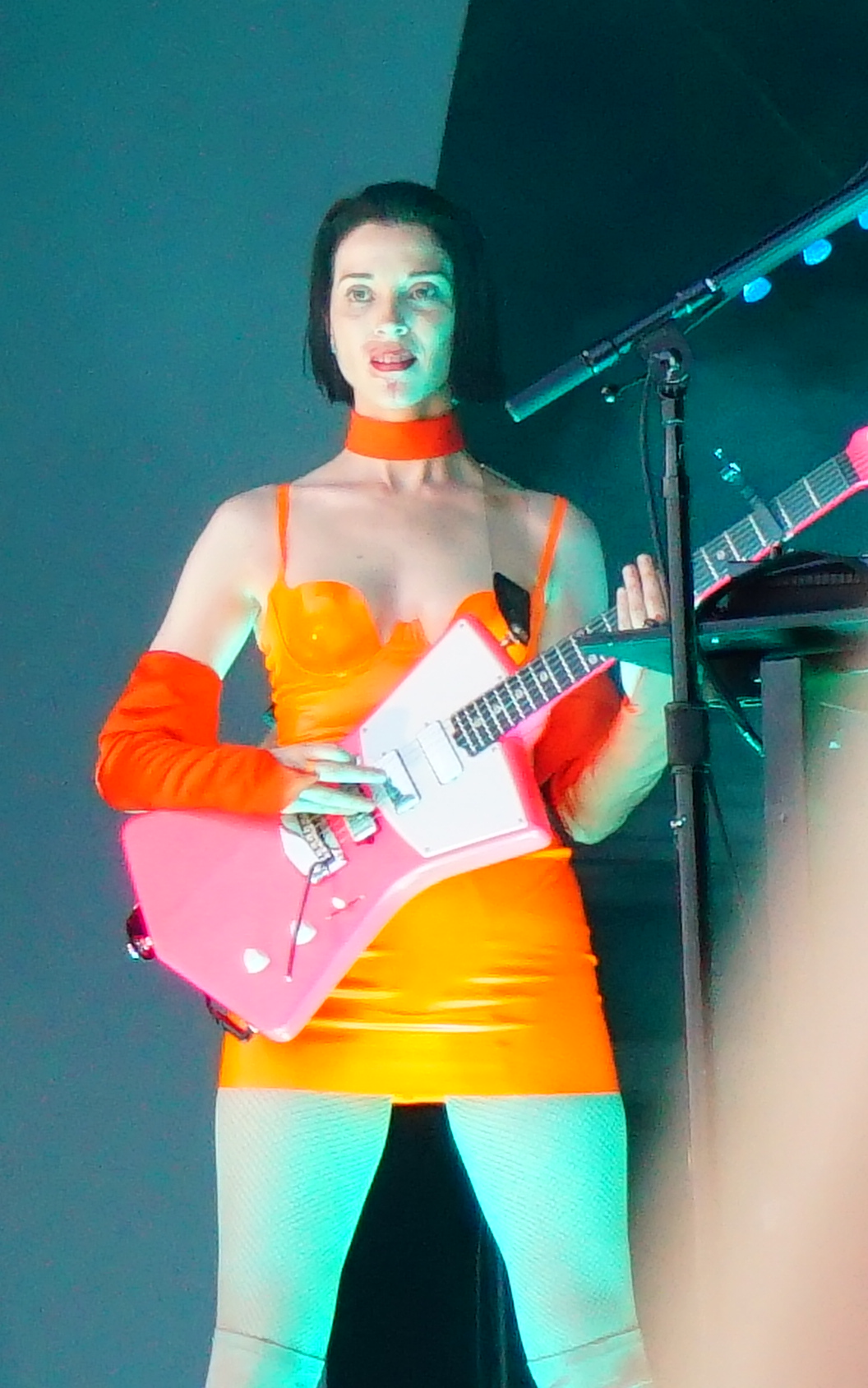 St. Vincent performing live in 2018